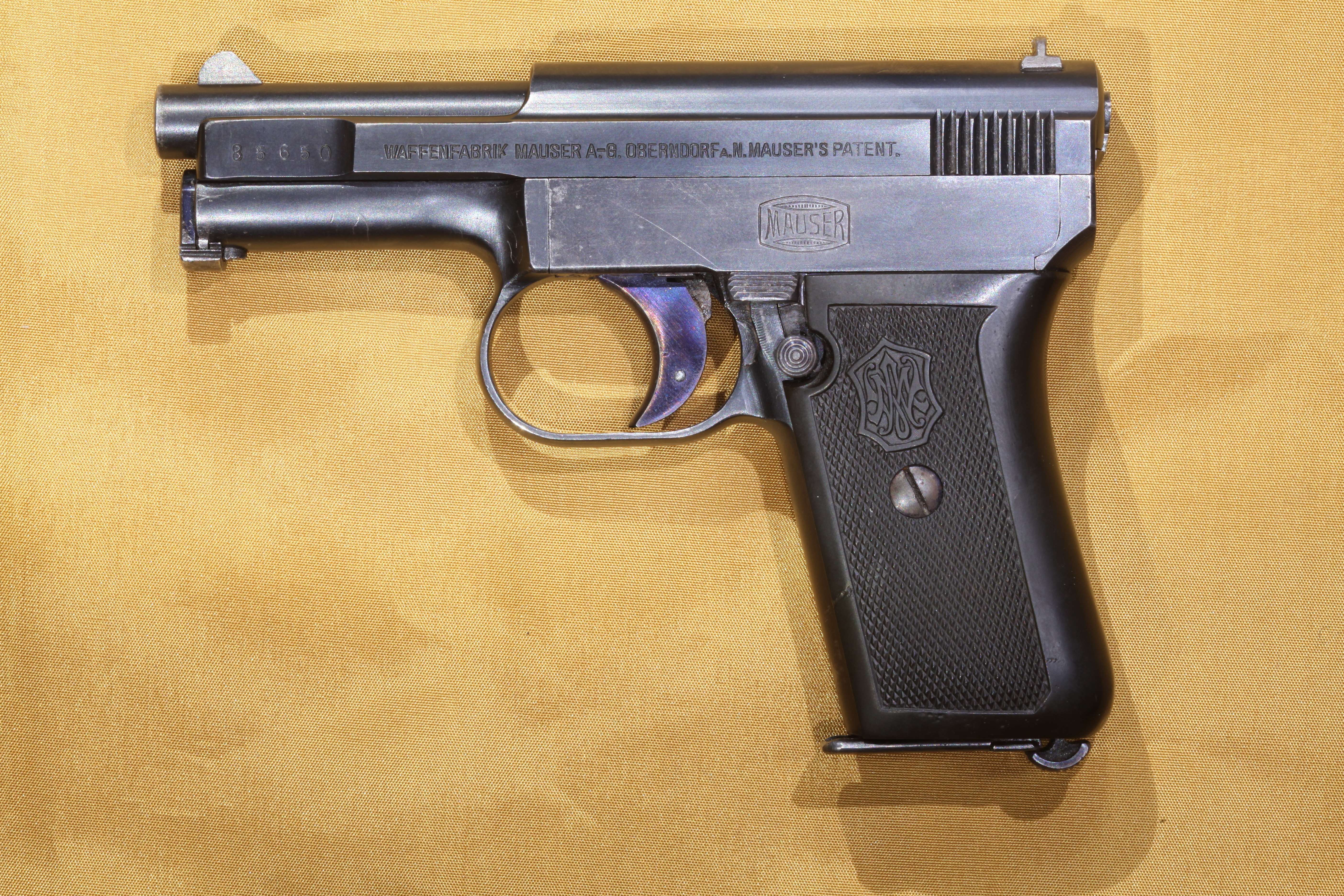 Mauser 1910 Collection Paul Regnier, Lausanne, Switzerland